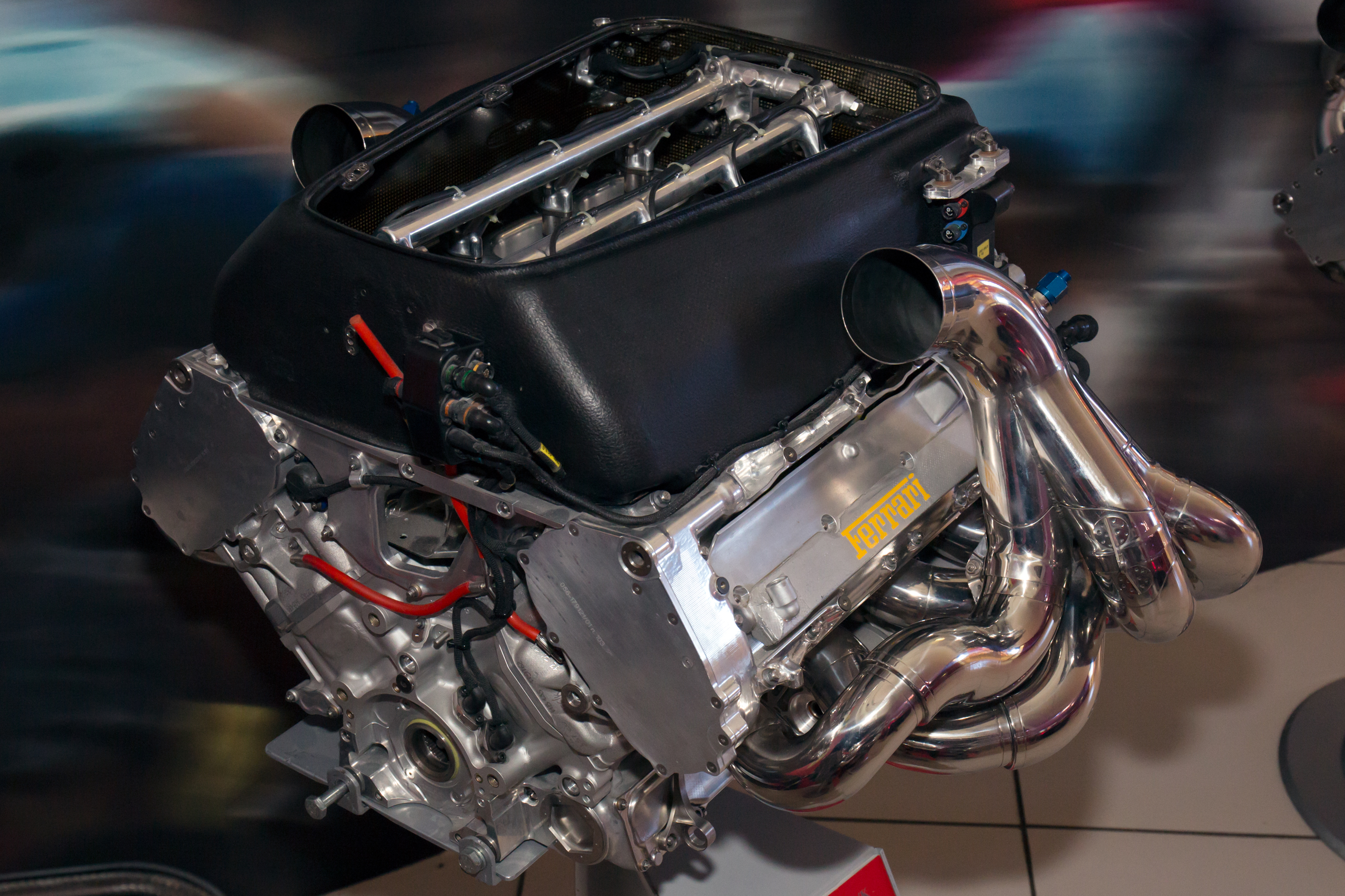 Ferrari Tipo 056 engine (2007) of the Ferrari F2007